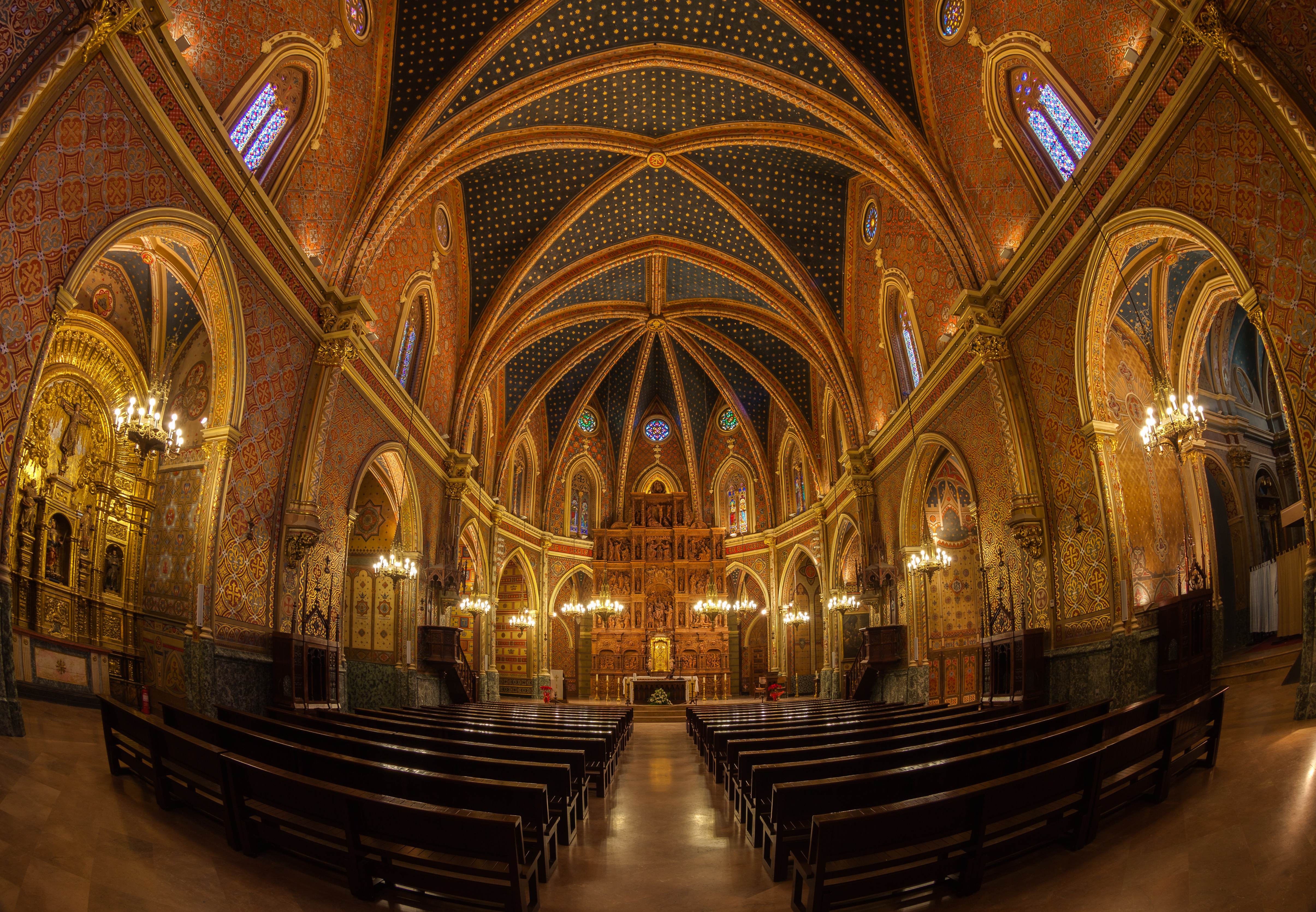 Church of St Peter, Teruel, Spain